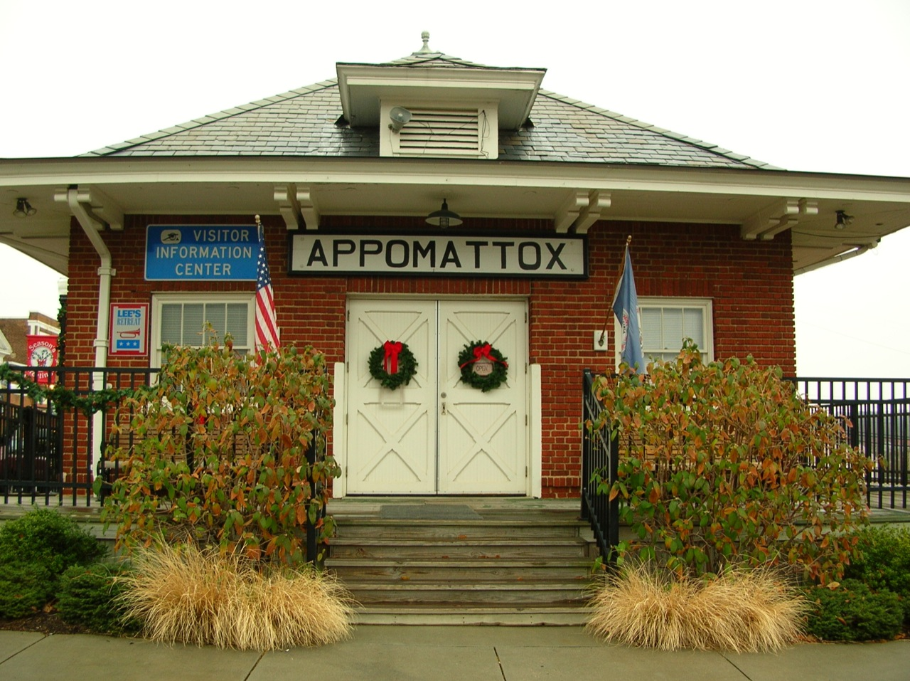 Appomattox train station, now the Appomattox (Virginia) visitor information center